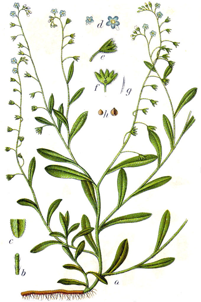 Myosotis laxa subsp. cespitosa (Schultz) Hyl. ex Nordh., syn. Myosotis caespitosa Schultz Original Caption Rasen-Vergissmeinnicht, Myosotis caespitosa